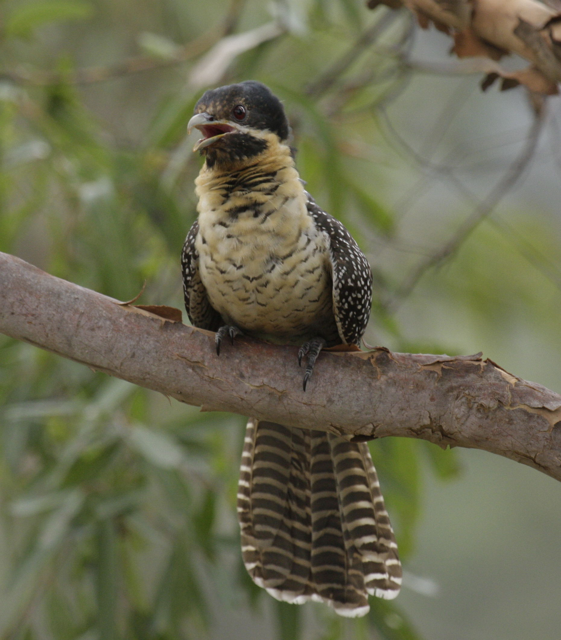 Pacific Koel (Eudynamys orientalis) Kobble Creek, SE Queensland, Australia